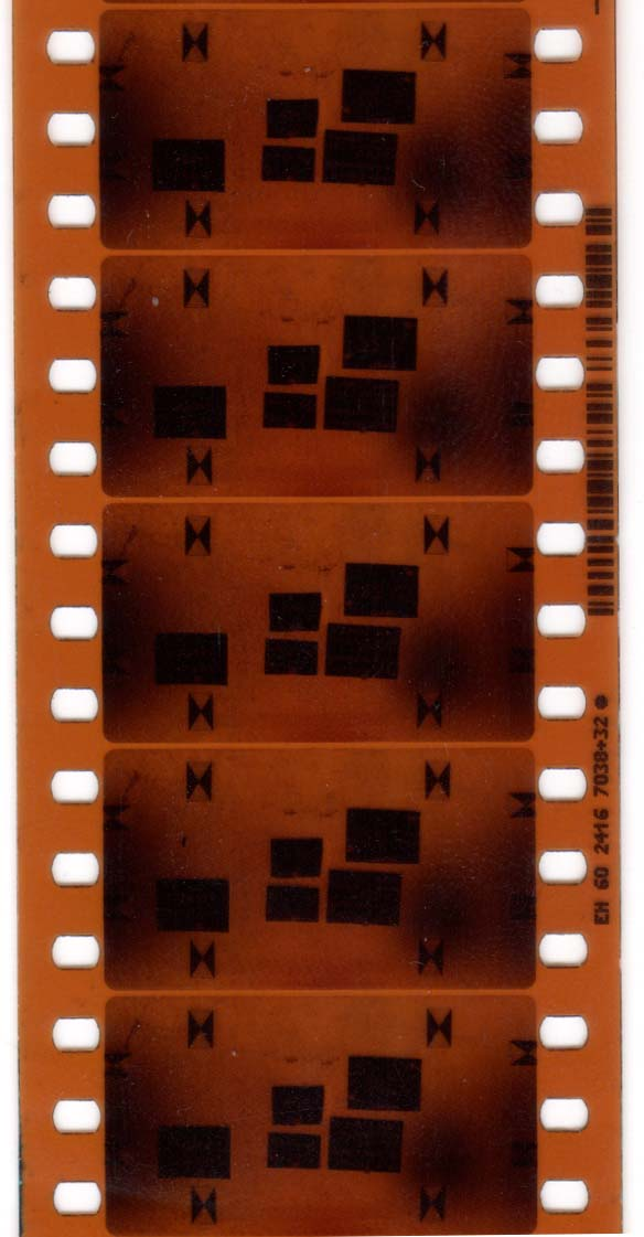 Conformity testing framework photographed on a Super 35, 3-perf 35 mm film negative (emulsion Kodak 5218), directed trials camera. Black and white arrows delineate framing areas for 2.39:1 and 4:3 aspect ratio images, image within the 3-perf frame.